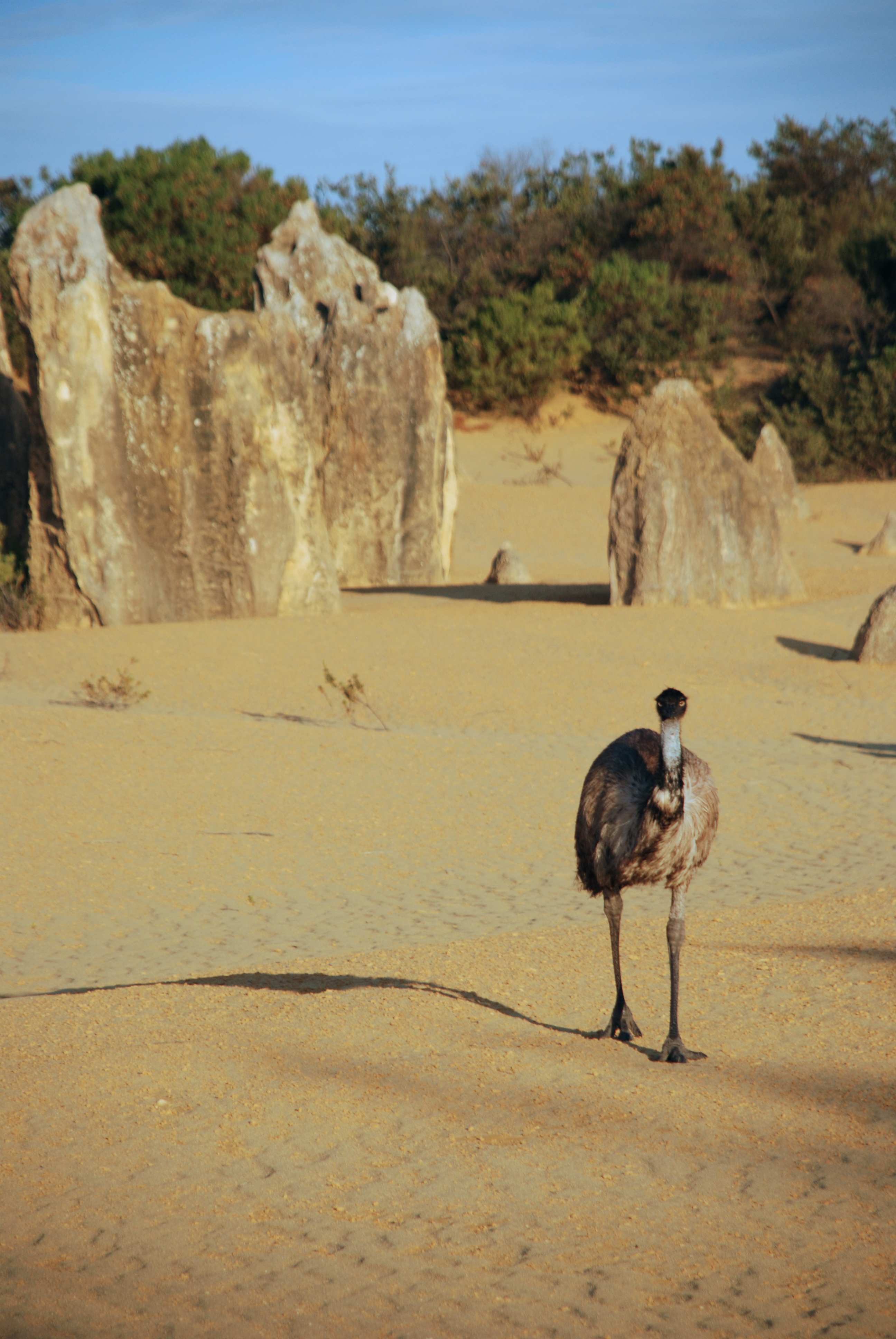 Emu in Pinnacles desert, Nambung National Park, WA, Australia - December 2009